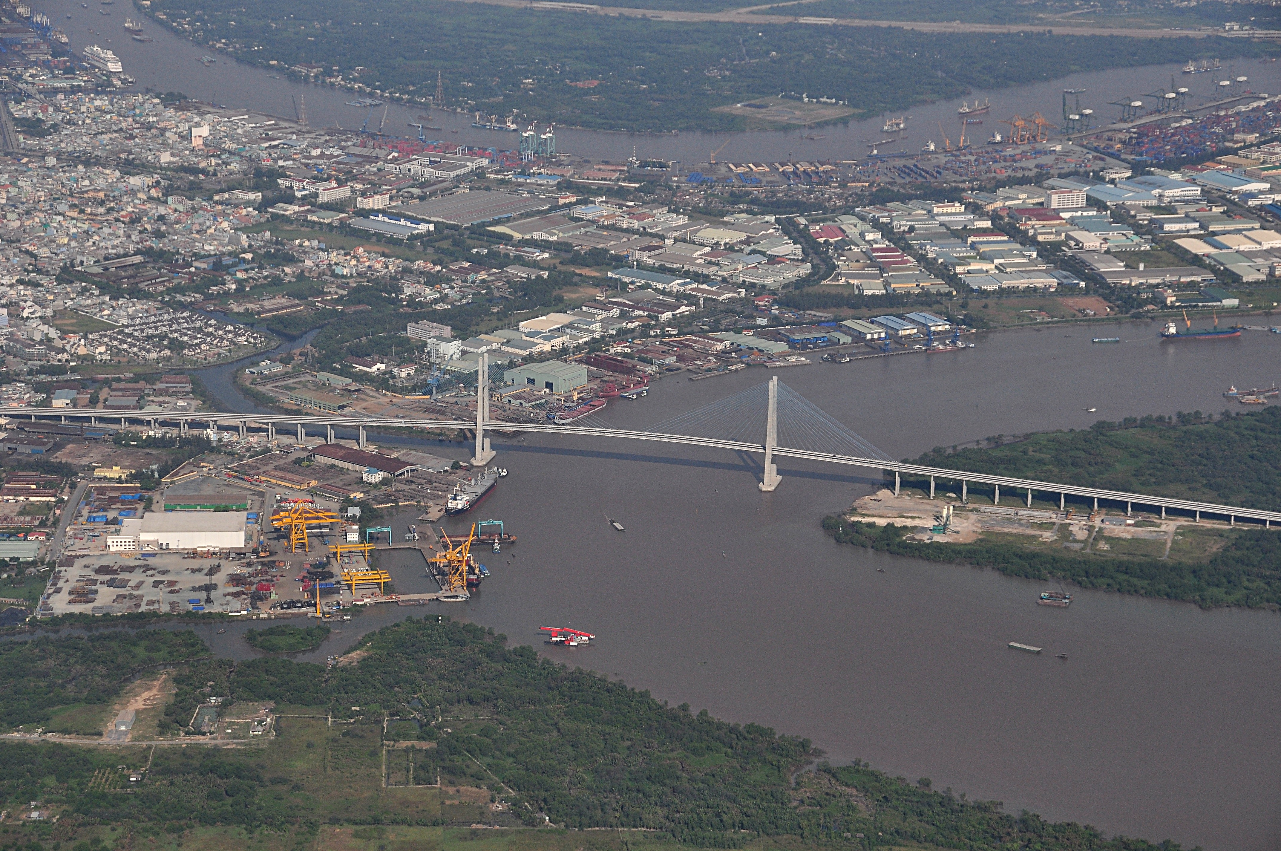 I have a love affair with cable stay bridges - and when I see one - I try to capture it from any angle - here from the air